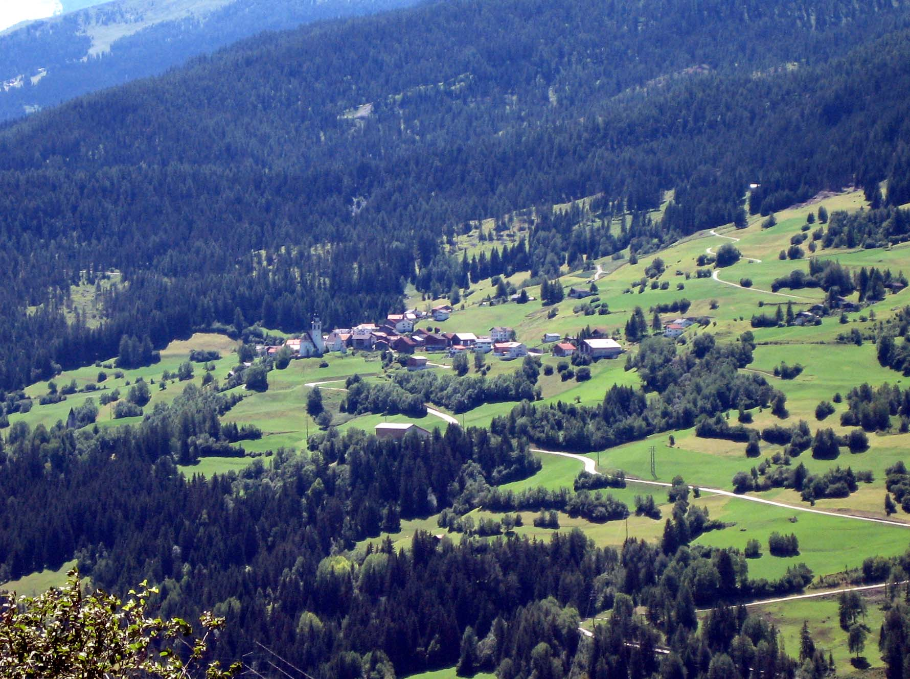 Mon